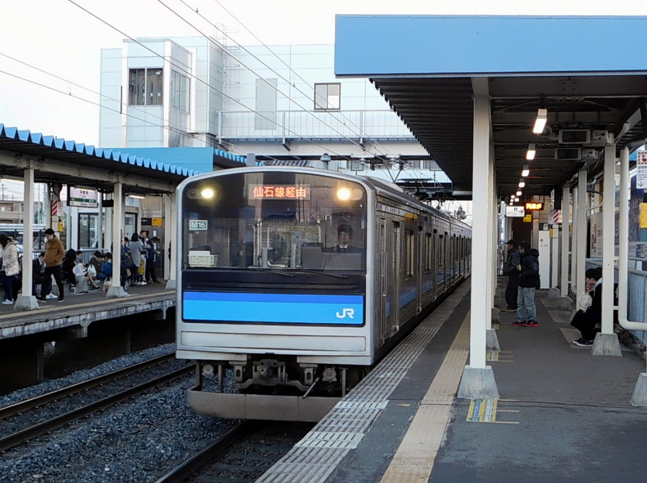 JR East 205 series EMU set M16 at Nakanosakae Station on the Senseki Line in Miyagi Prefecture, Japan